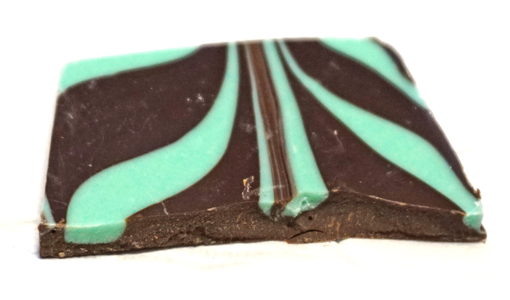 Mint dark chocolate made by Kultasuklaa.